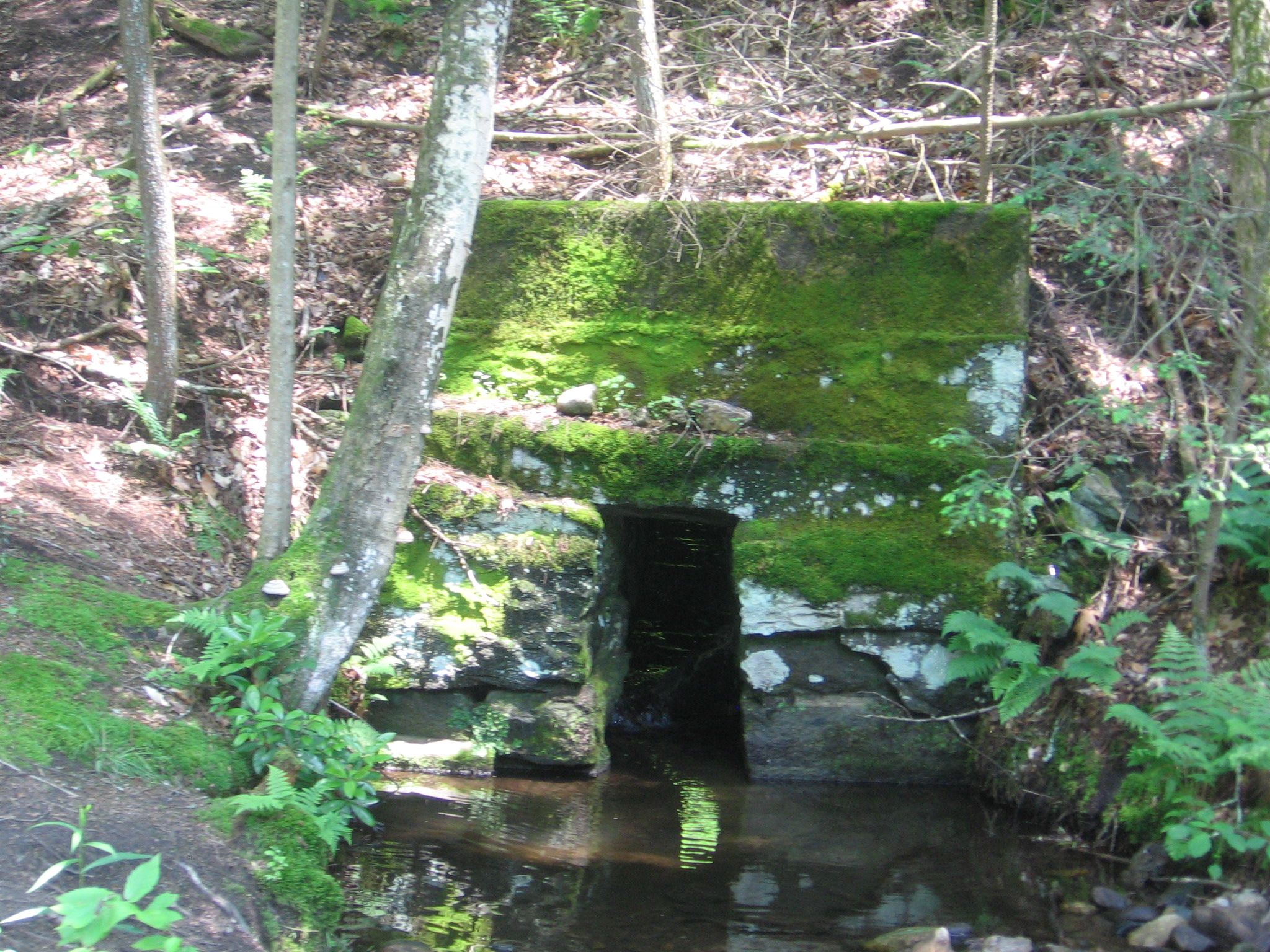 Stone lintel culvert that used to carry the Shepaug Railroad right of way in Washington, Connecticut. This is within the Steep Rock Reserve looking east from Tunnel Road.